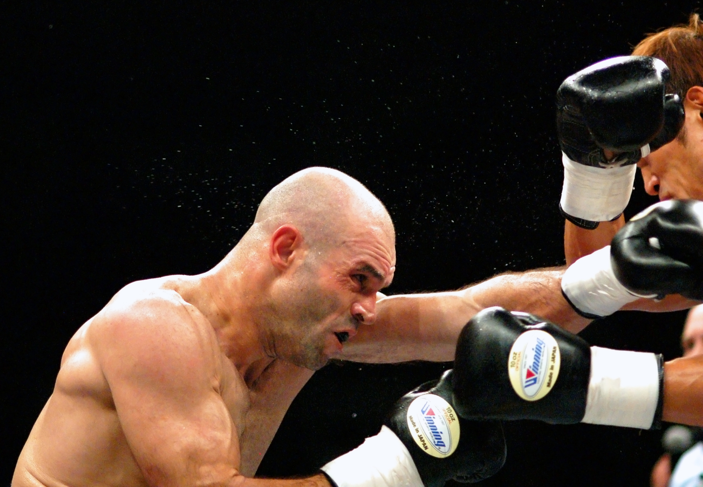 Nobuhiro Ishida vs. Rigoberto Álvarez (on the left) at the Mesón de los Deportes in Tepic, Nayarit, Mexico on October 9, 2010. They fought while wearing Winning gloves.